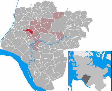 This map shows the area of the municipality Kleve in the Kreis (district) Steinburg, Schleswig-Holstein, Germany.